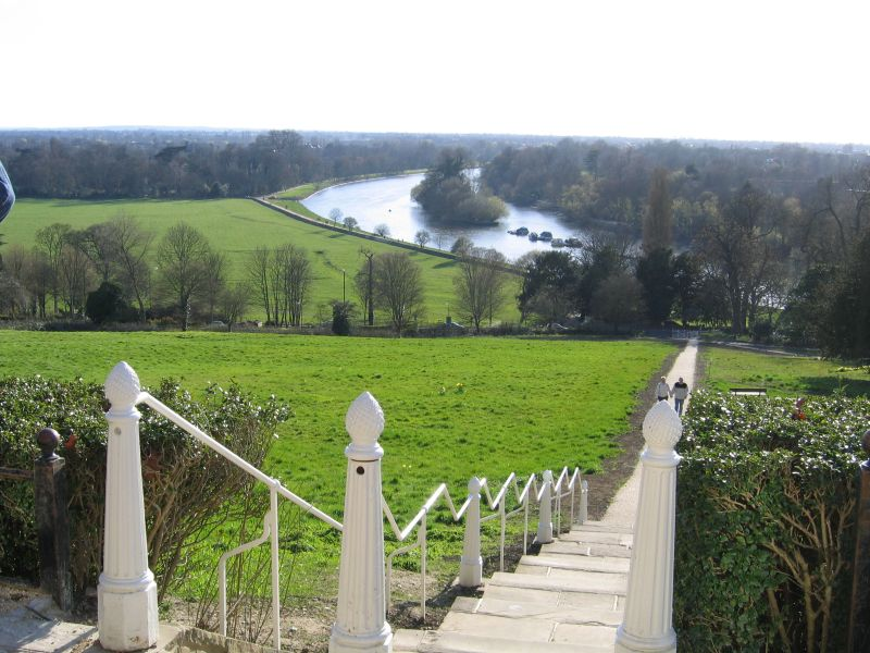 View to the West-SouthWest of River Thames and the water meadow from the Terrace on Richmond Hill, roughly opposite The Roebuck pub, Richmond, London, UK. (51° 27' 09.35" North, 0° 17' 56.75" West